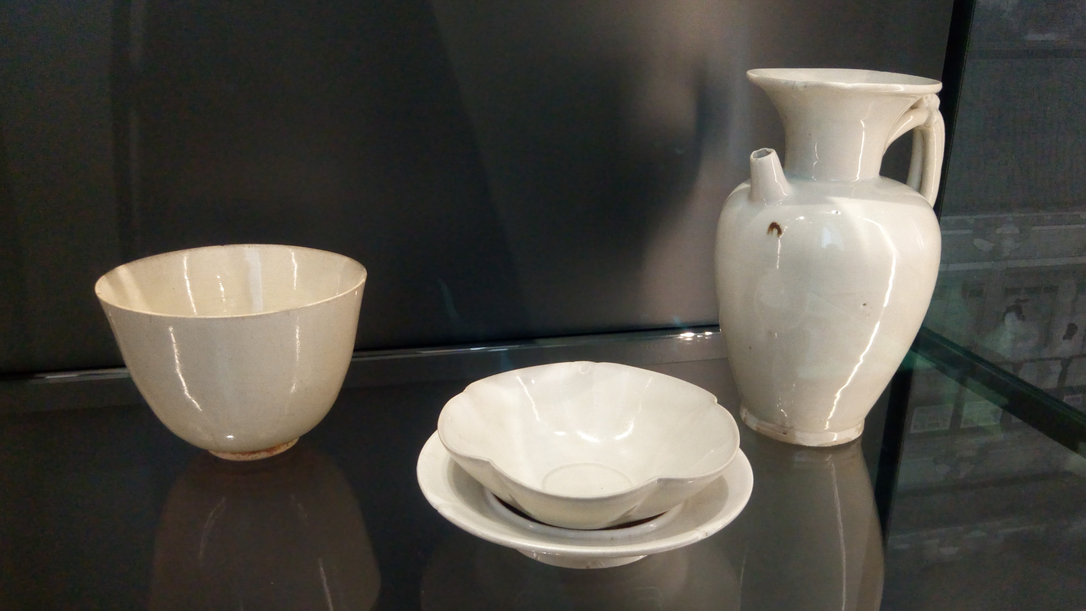 White Teaware, probably from Xing kilns (Hebei). Dated around Sui dynasty, and Tang dynasty or Five dynasties and Ten kingdoms period. From left to right : - cup (Sui dynasty, 581-681 ?) (1972,1212.1); bowl with saucer (c. 800-1000) (1909,0605.9 and 1922,1212.1); ewer (c. 800-1000) (1915.0409.33).